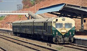 A recently found image of 700 HP DHMU (later converted to DEMU) at Goa